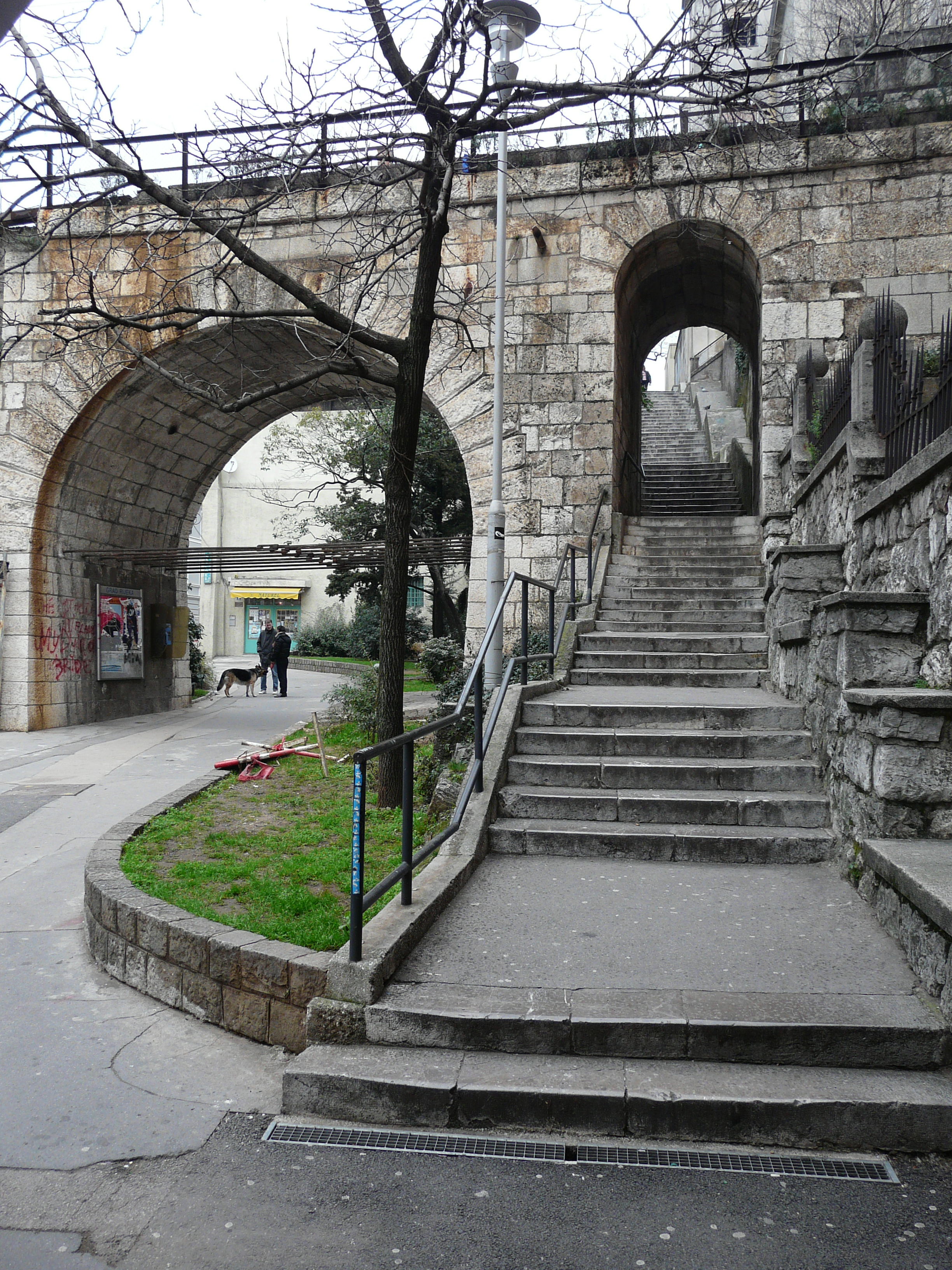 Beginning of starcase from Rijeka to Trsat